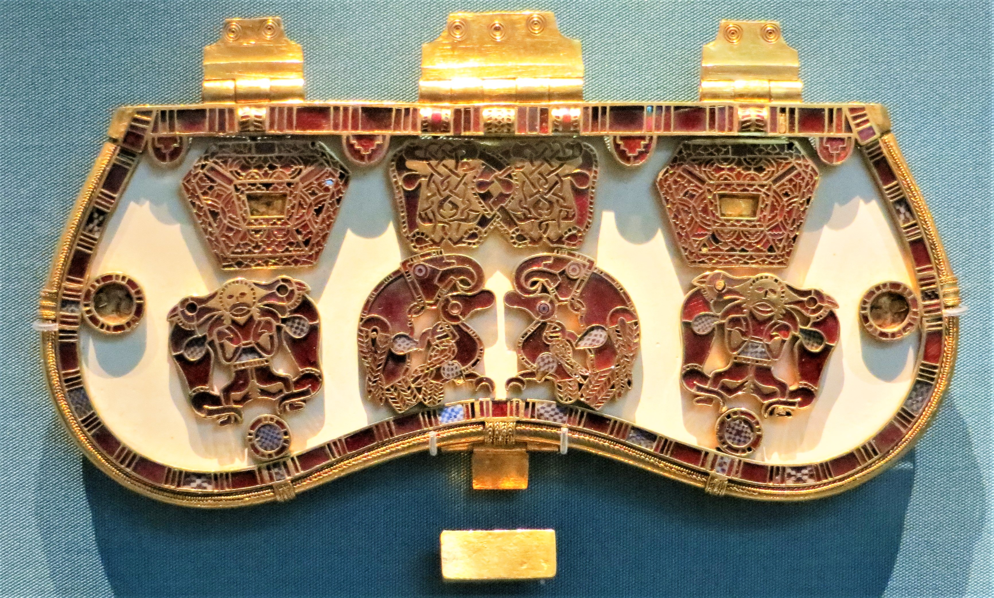 Items from the Sutton Hoo ship burial in the British Museum